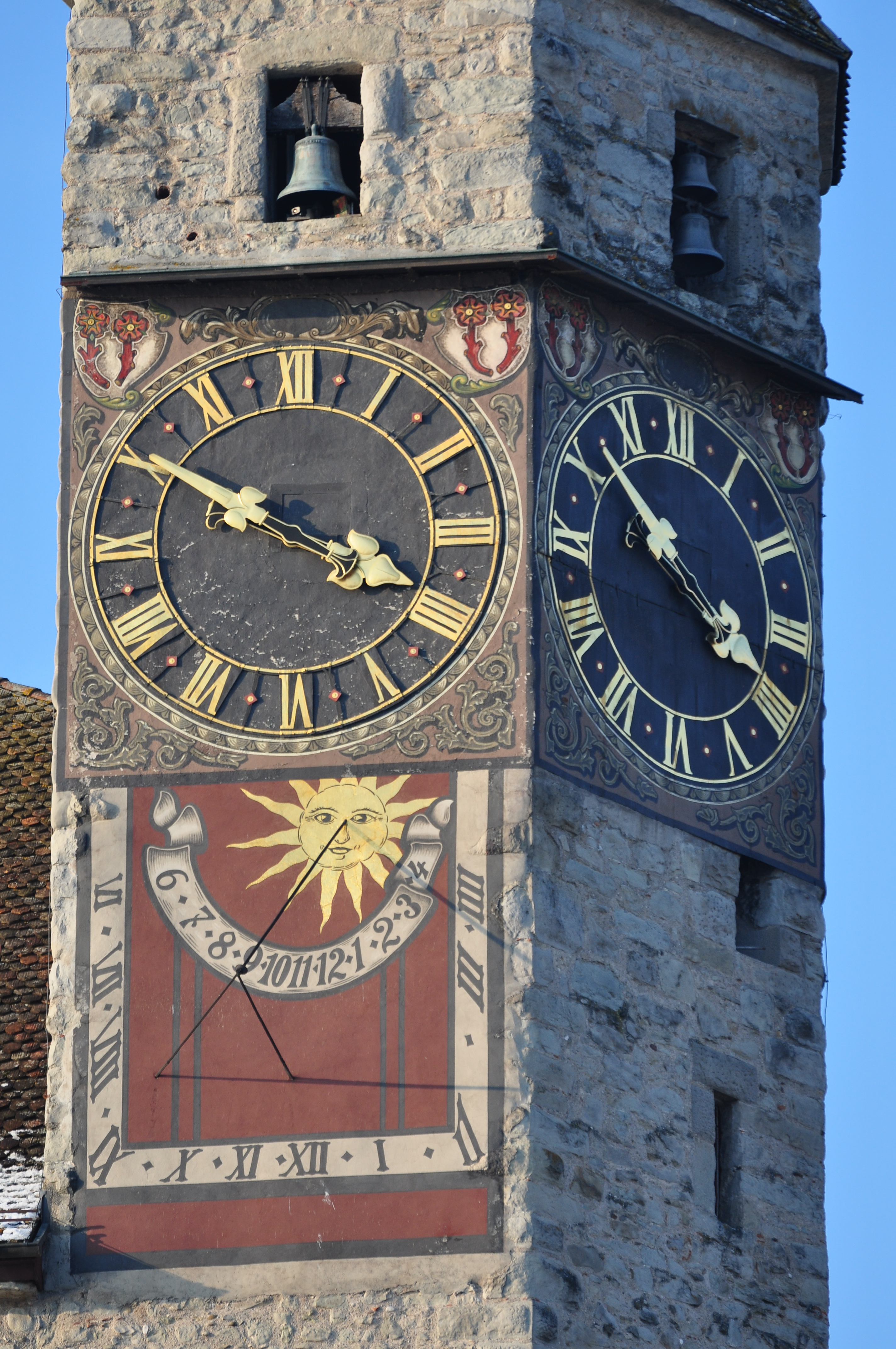 Rapperswil (Switzerland) : Rapperswil castle Zeitturm (clock tower) as seen from Hauptplatz.